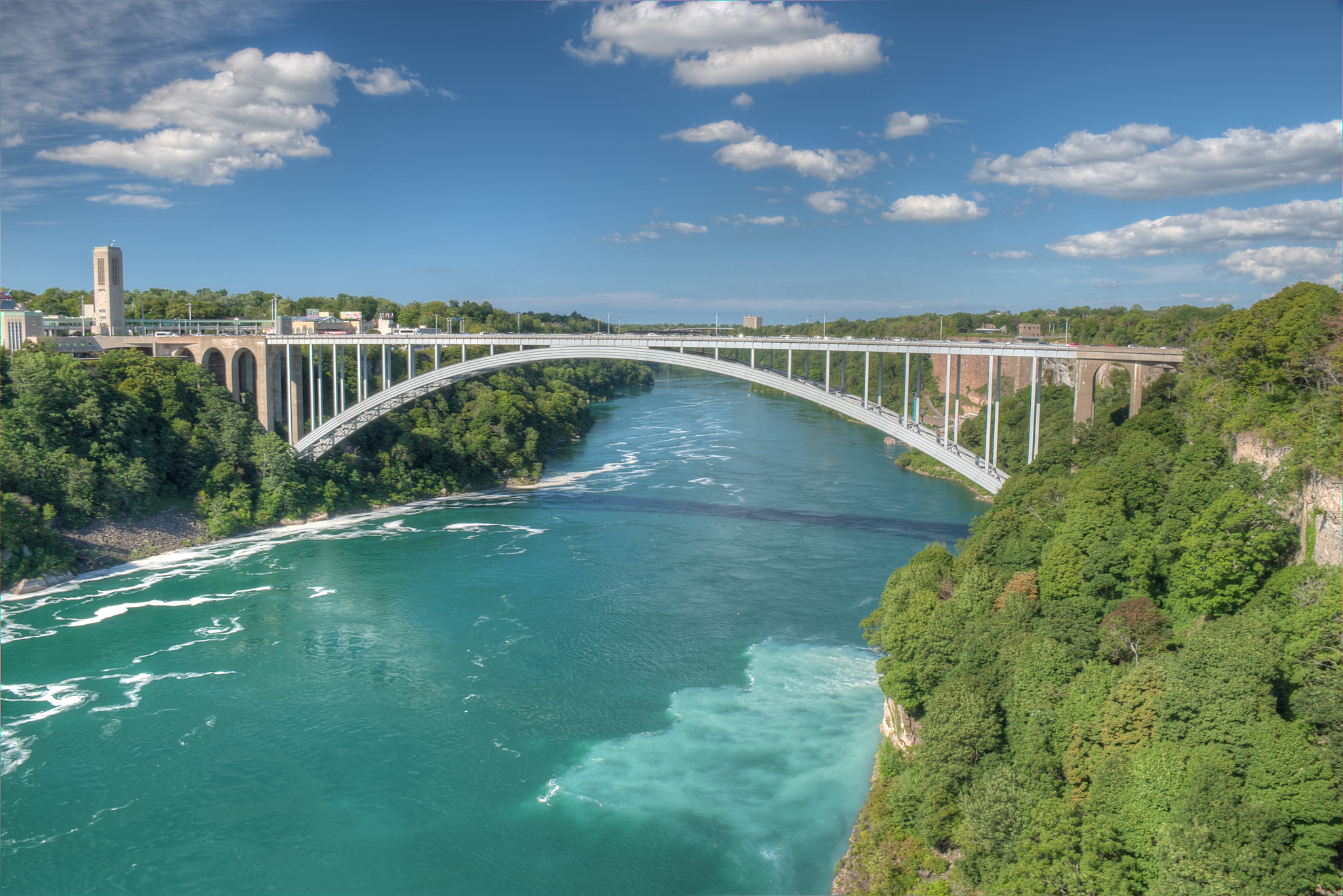 15-23-0882: rainbow bridge from observation deck